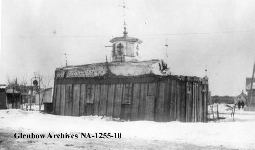 Polish church in Winnipeg 1905